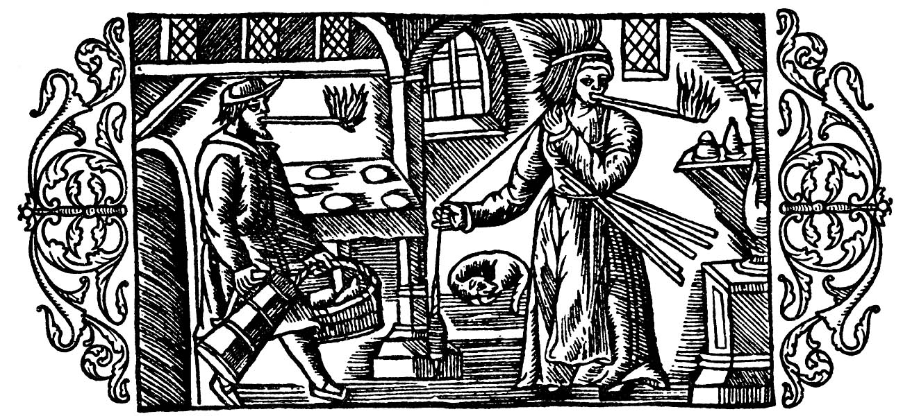 A man and a woman carry fatwood torches in their mouths in order to have both hands free. The man seems to come from an outside pantry with a can of beer and a basket with food. The woman is spinning with a distaff. She carries spare torches in her belt. A dog is sleeping in the background.